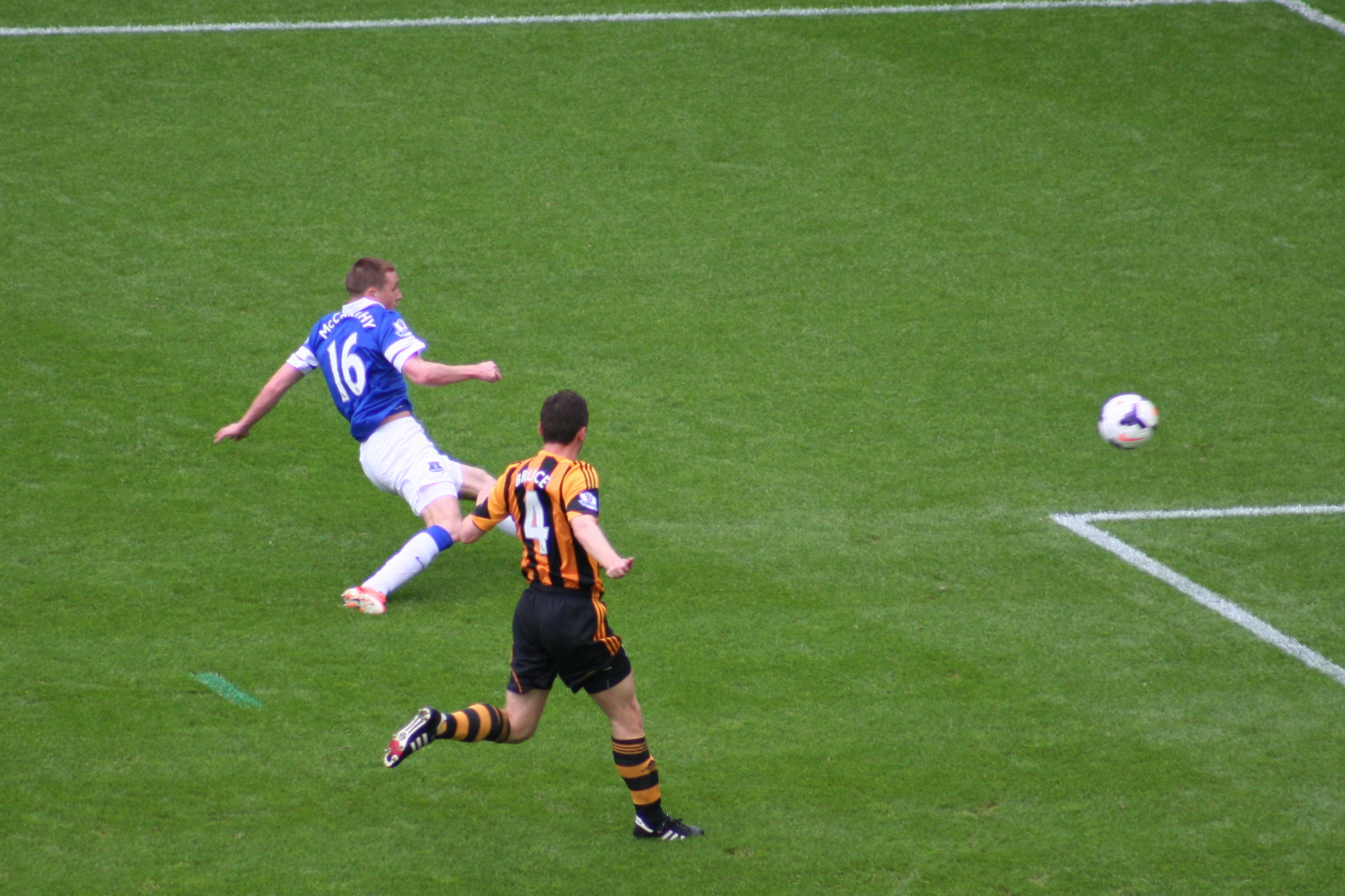 Irish football player James McCarthy scores his first goal for Everton – agaist Hull City on the final day of 2013-14 Premier League season.